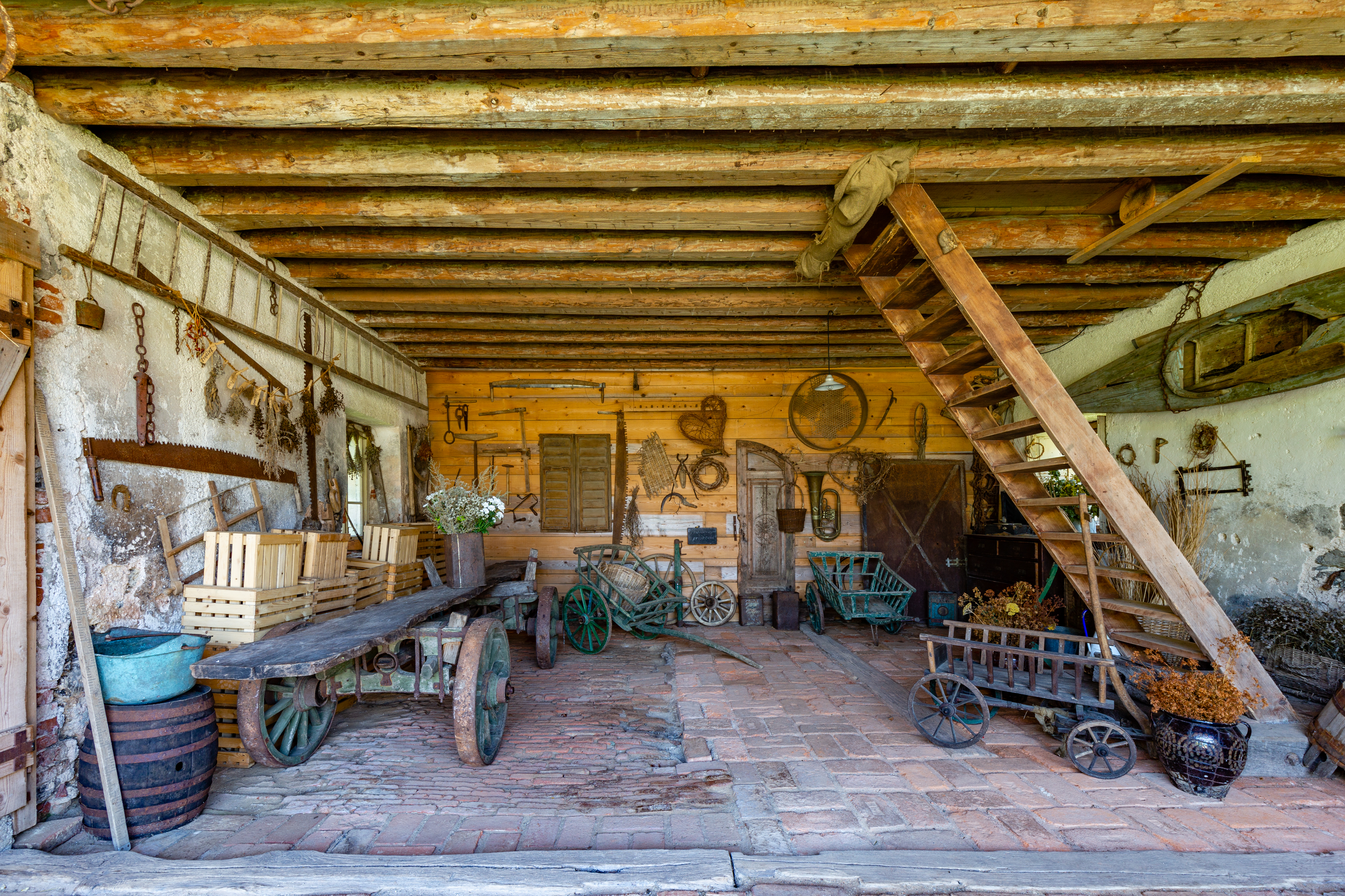 Interior of Grajska štala, Planina, Postojna